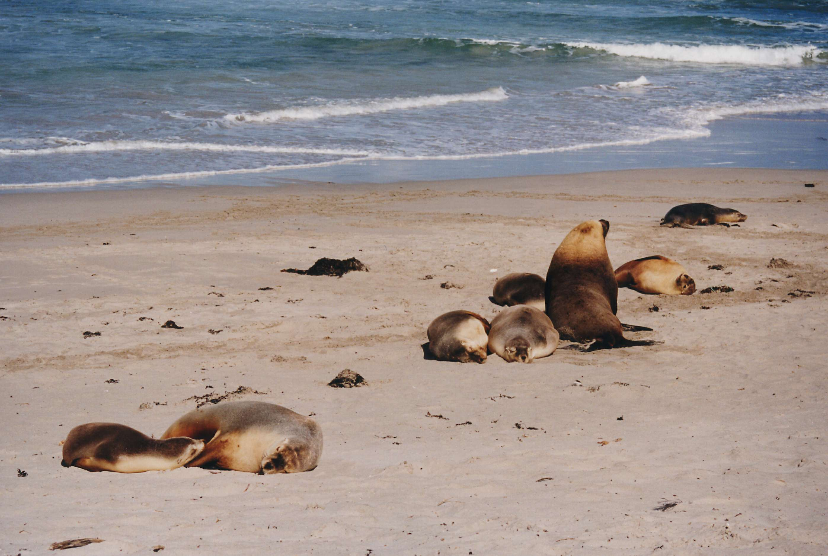 Seals at Seal Bay, Kangaroo Island, Australia